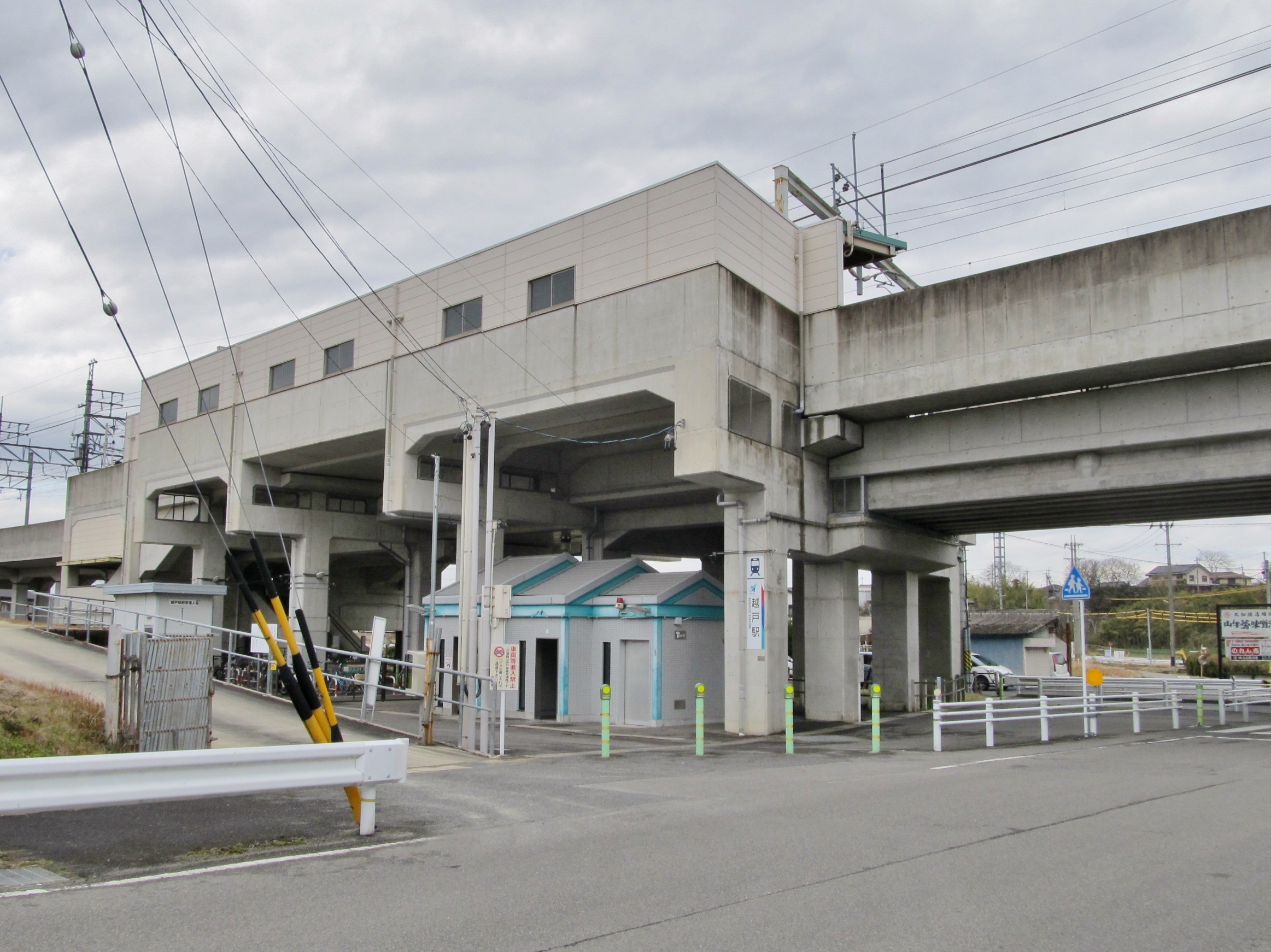 Nagoya Railroad Mikawa Line Koshido Station